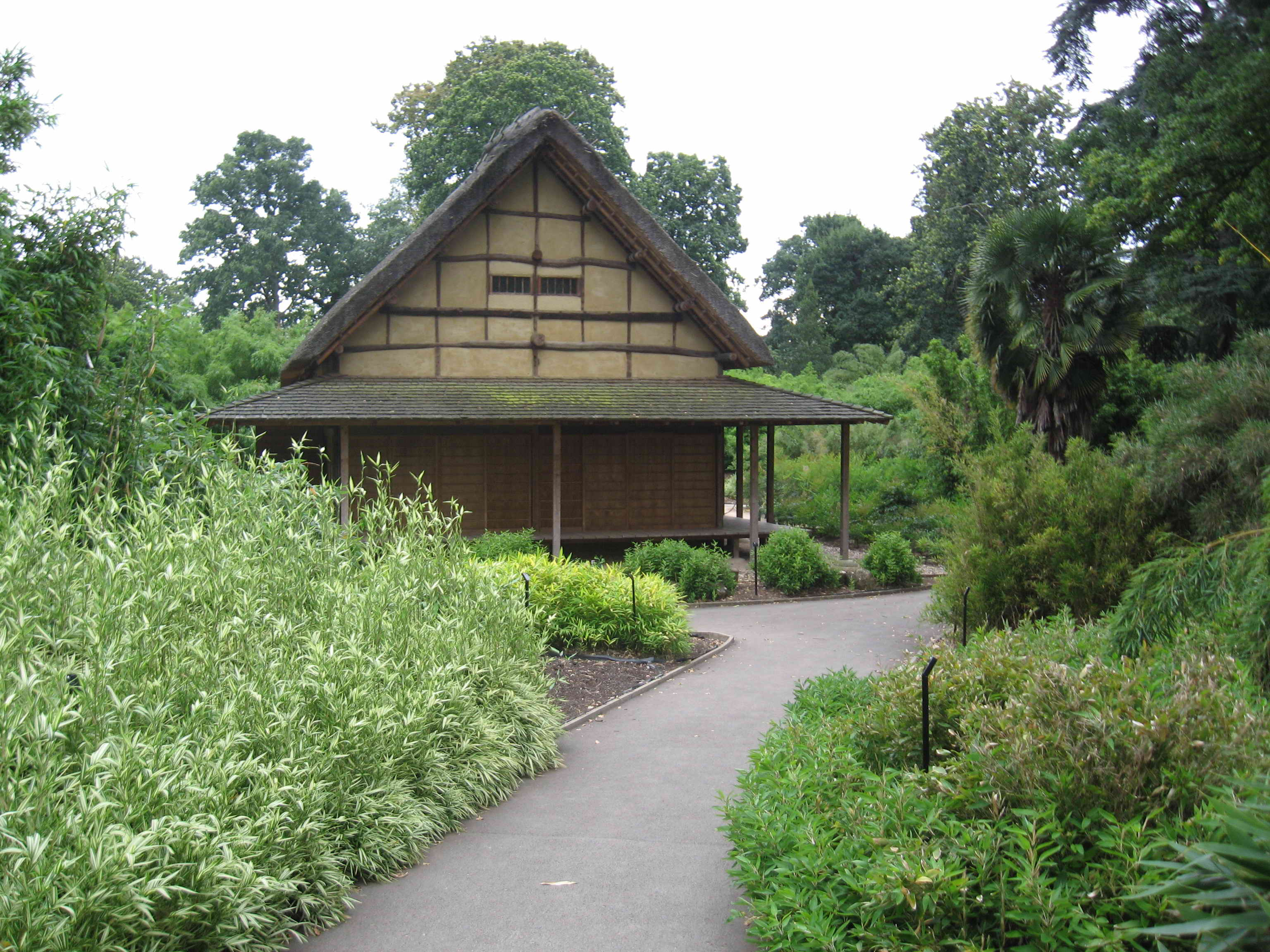 Kew Minka-house